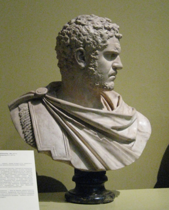 Bust of emperor Caracalla. Cast in Pushkin Museum. The original was found in the surroundings of Rome, is part of the Farnese Collection, and is now in the National Archeological Museum, Neaples.